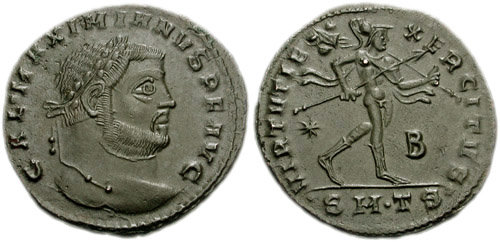 GALERIUS. 305-311 AD. Æ Follis (26mm, 6.22 gm, 5h). Thessalonica mint, 2nd officina. Struck 308-310 AD. GAL • MAXIMINVS P F AVG, laureate head right VIRTVTI E-XERCITVS, Mars advancing right, holding trophy and spear; *-B//•SM•TS•. RIC VI 37a. EF, dark brown patina.